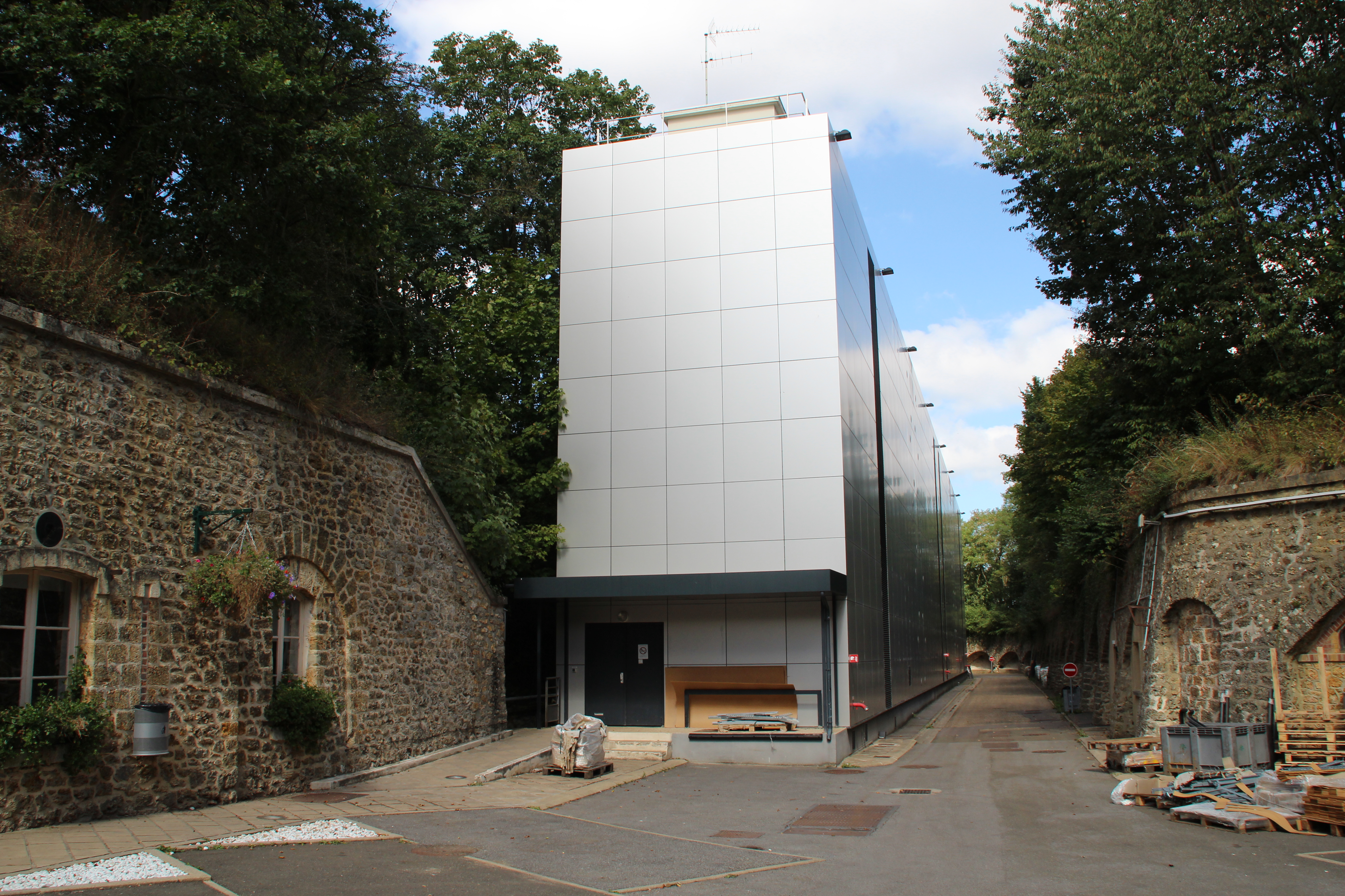 The battery of Bois d'Arcy is one of the military batteries built in the late nineteenth century to defend Paris. It is located in the commune of Bois d'Arcy, in the department of Yvelines, France. It is now a archives center for the Centre national du cinéma et de l'image animée (National Center of Cinematography and the moving image). .